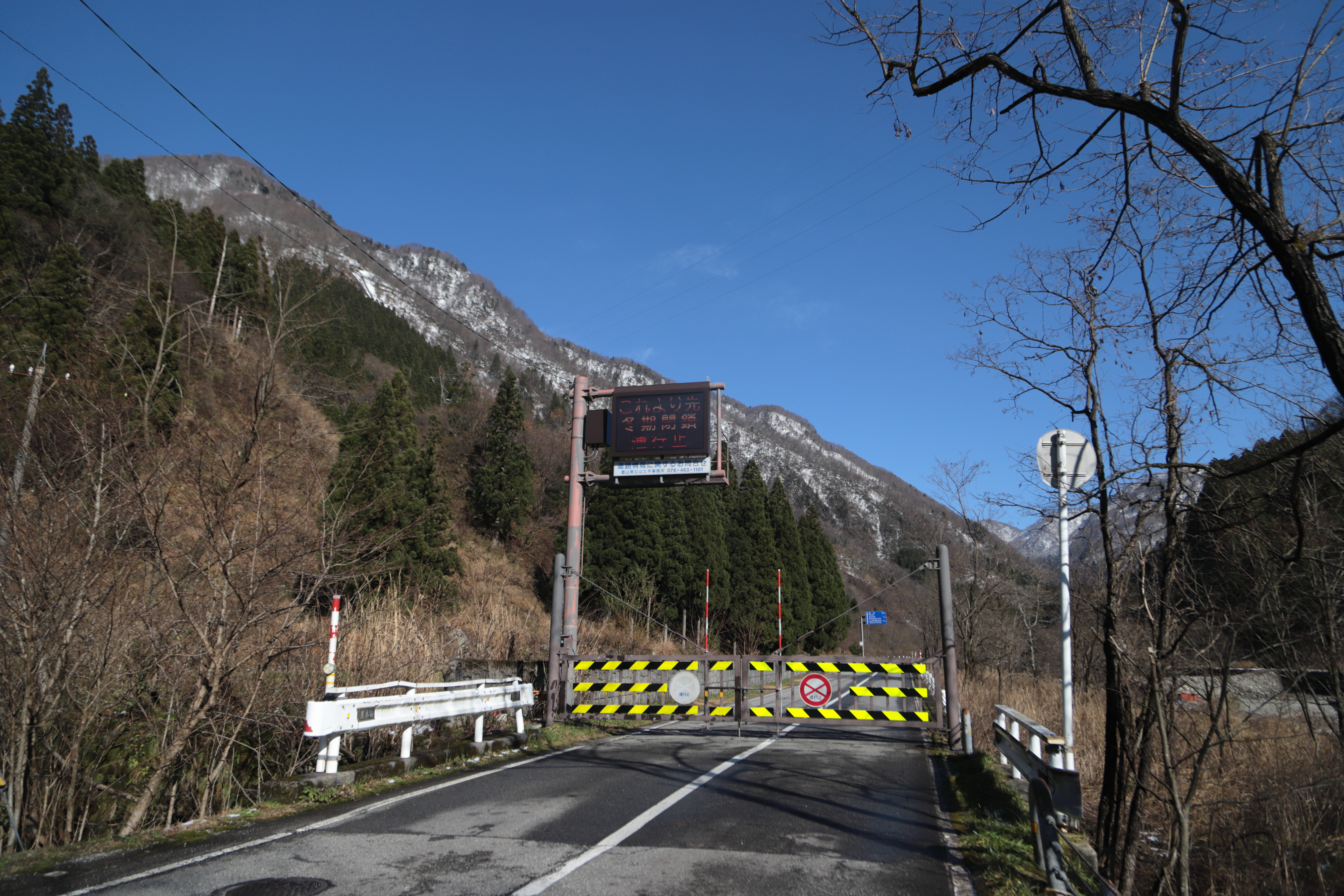 Toyama Prefectural Road Route 6 in Tateyama town, Toyama